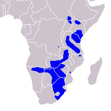 Equus burchellii distribution map